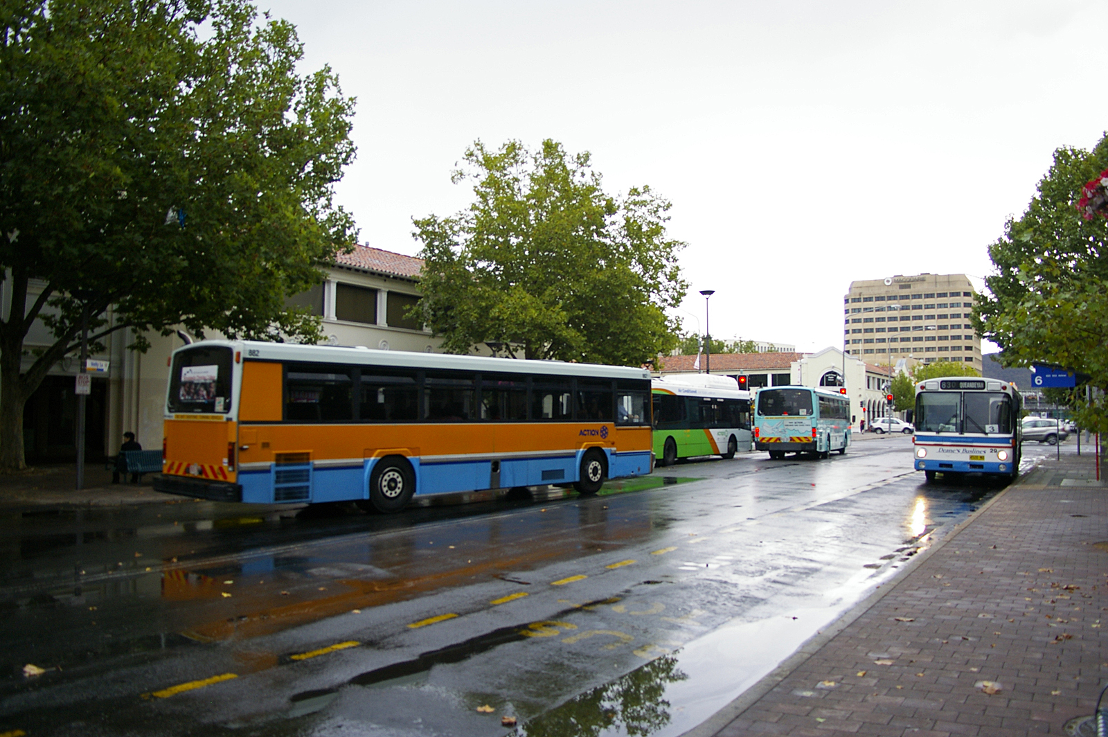 ACTION and Deane's Buslines at the City Bus Interchange.